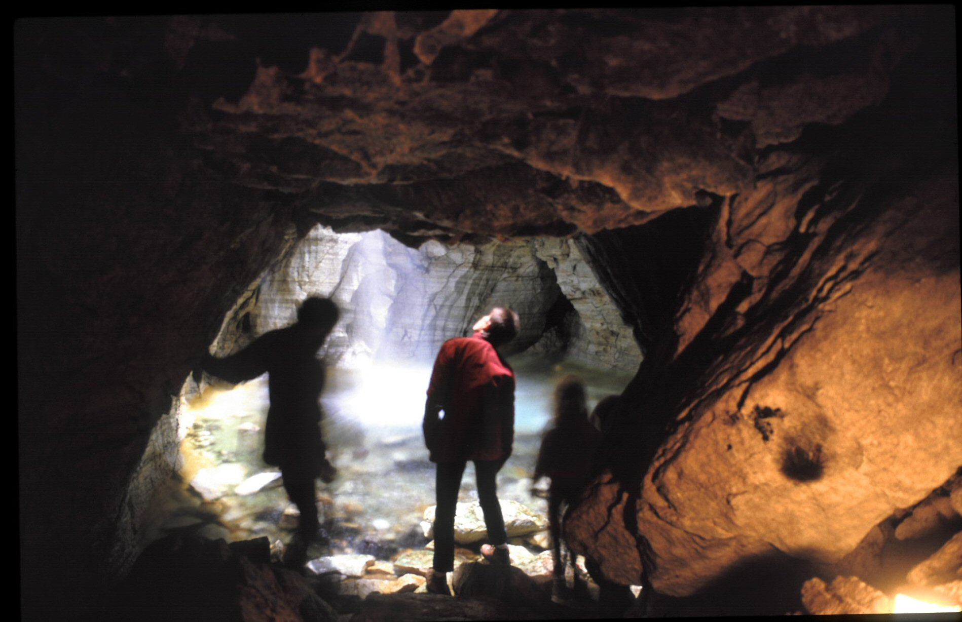 The marble cave Trollkyrkja, Fræna municipality, Møre og Romsdal county, Norway. The waterfall hall.